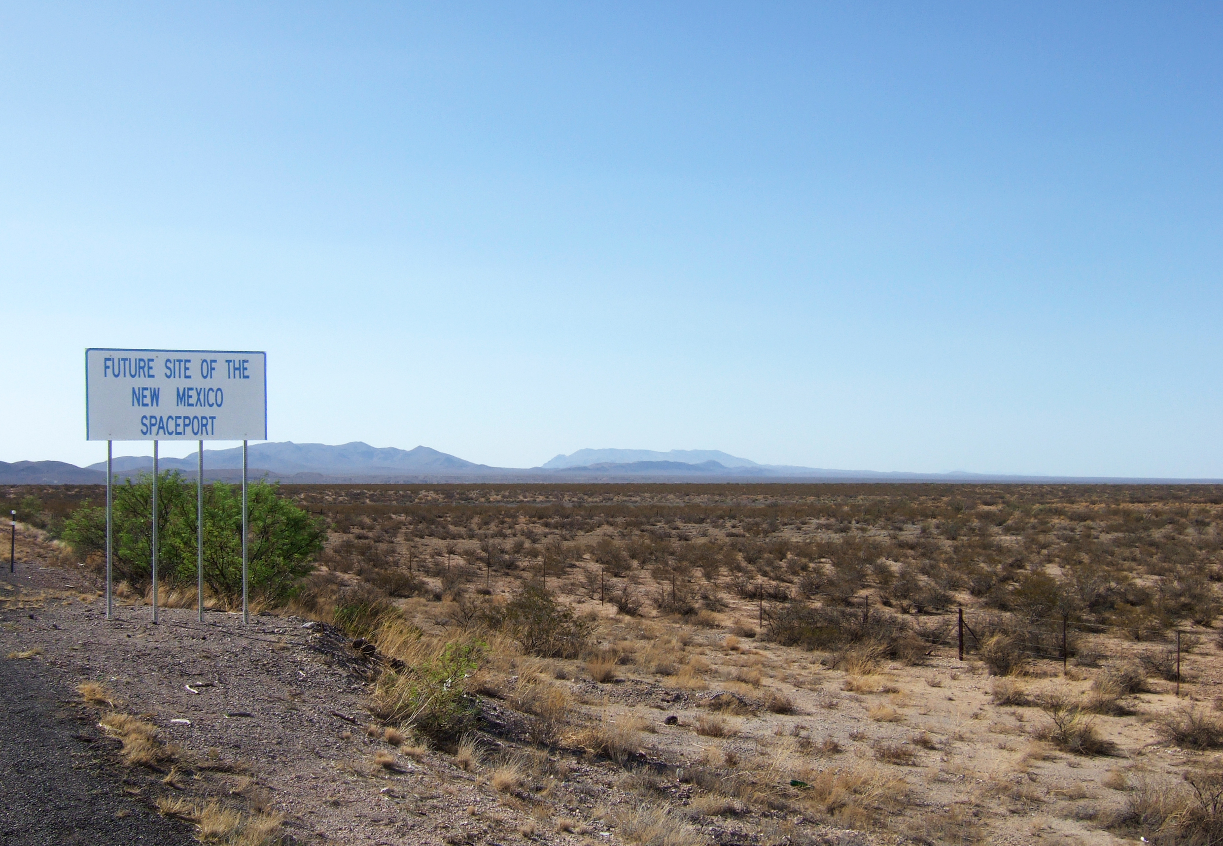 Sign near Upham, New Mexico, USA. Area now being developed as Spaceport America.